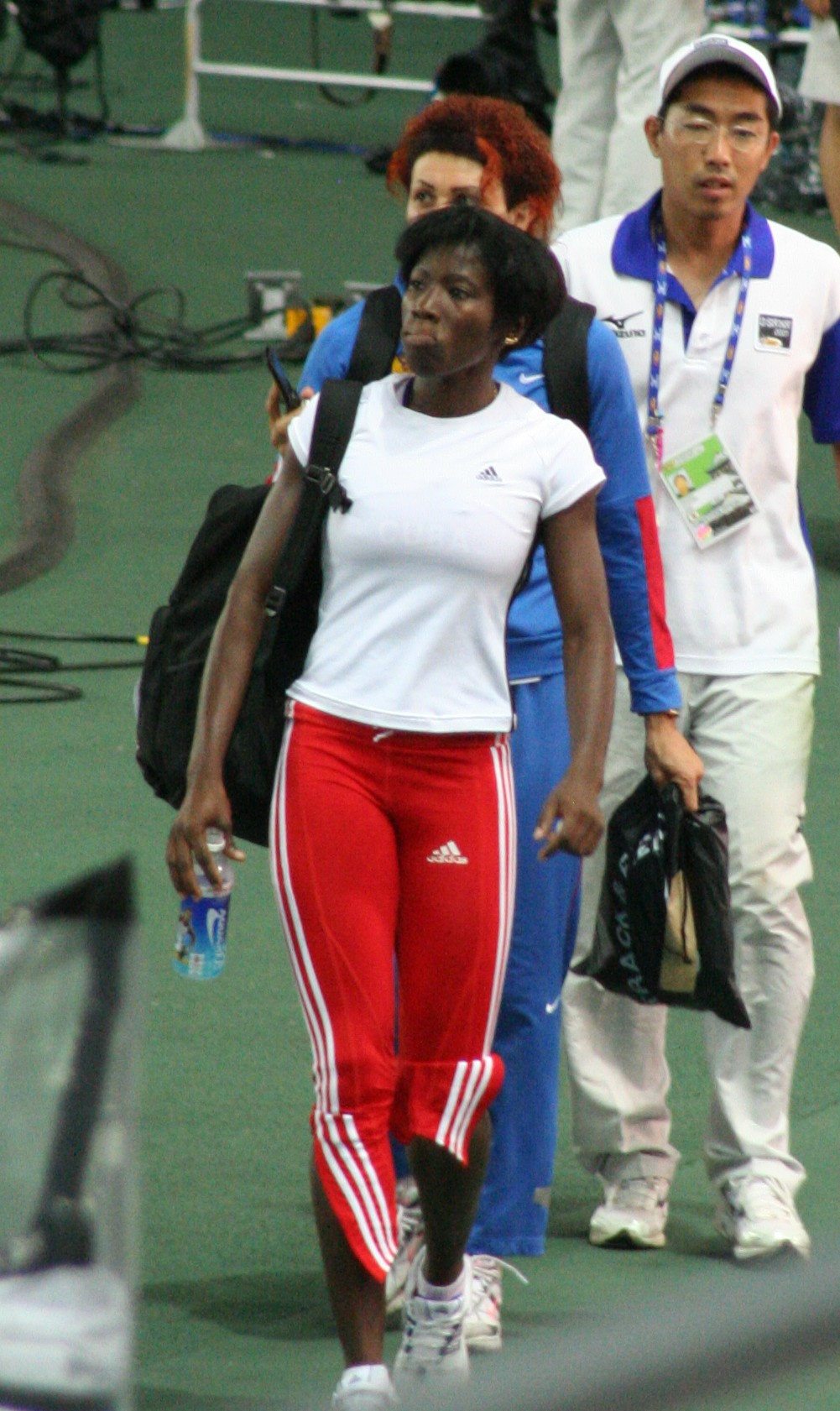 World Athletics Championships 2007 in Osaka - Women*s triple jump winner Yargelis Savigne (Cuba)